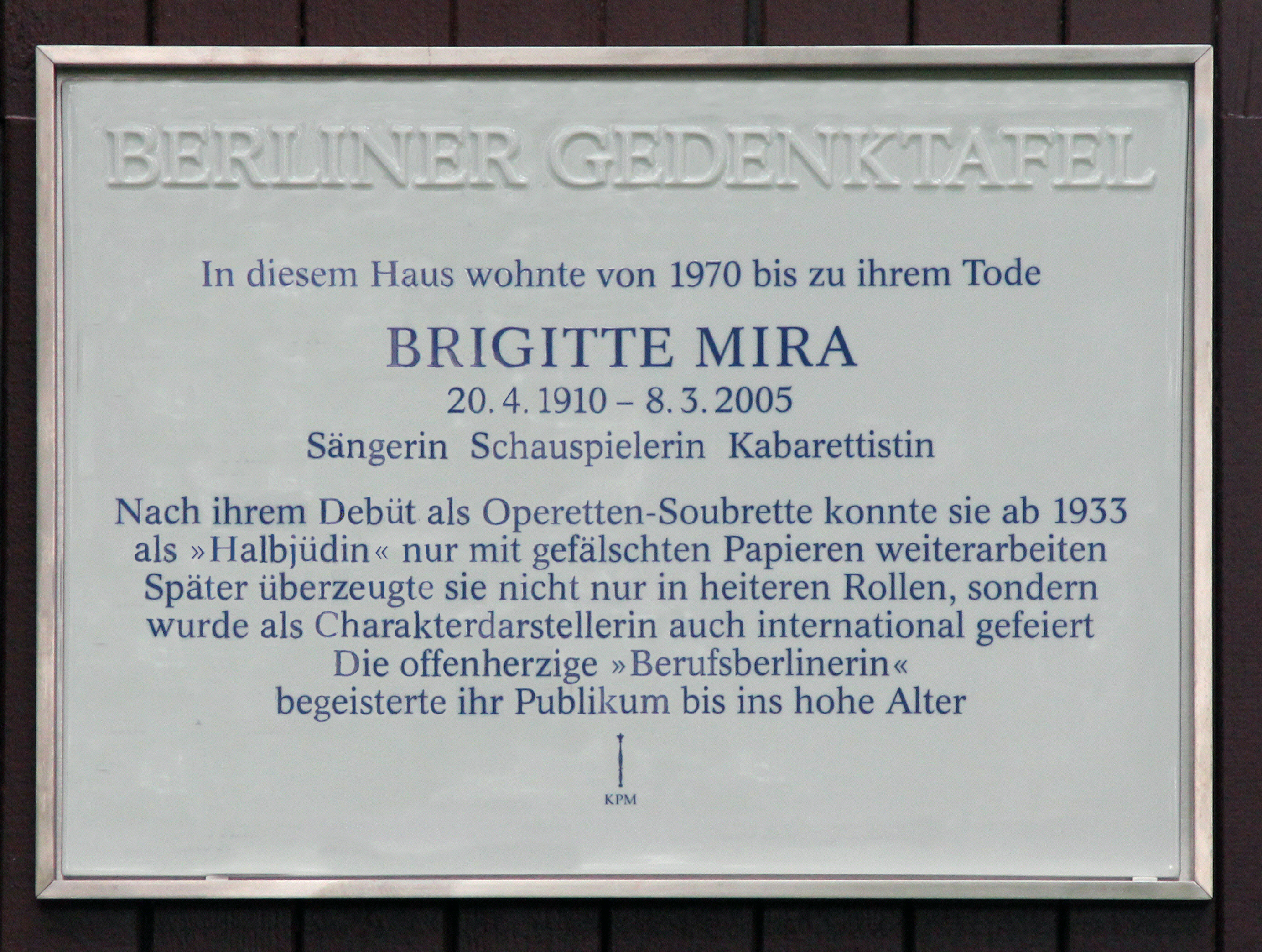 Berlin memorial plaque, Brigitte Mira, Koenigsallee 83, Berlin-Grunewald, Germany